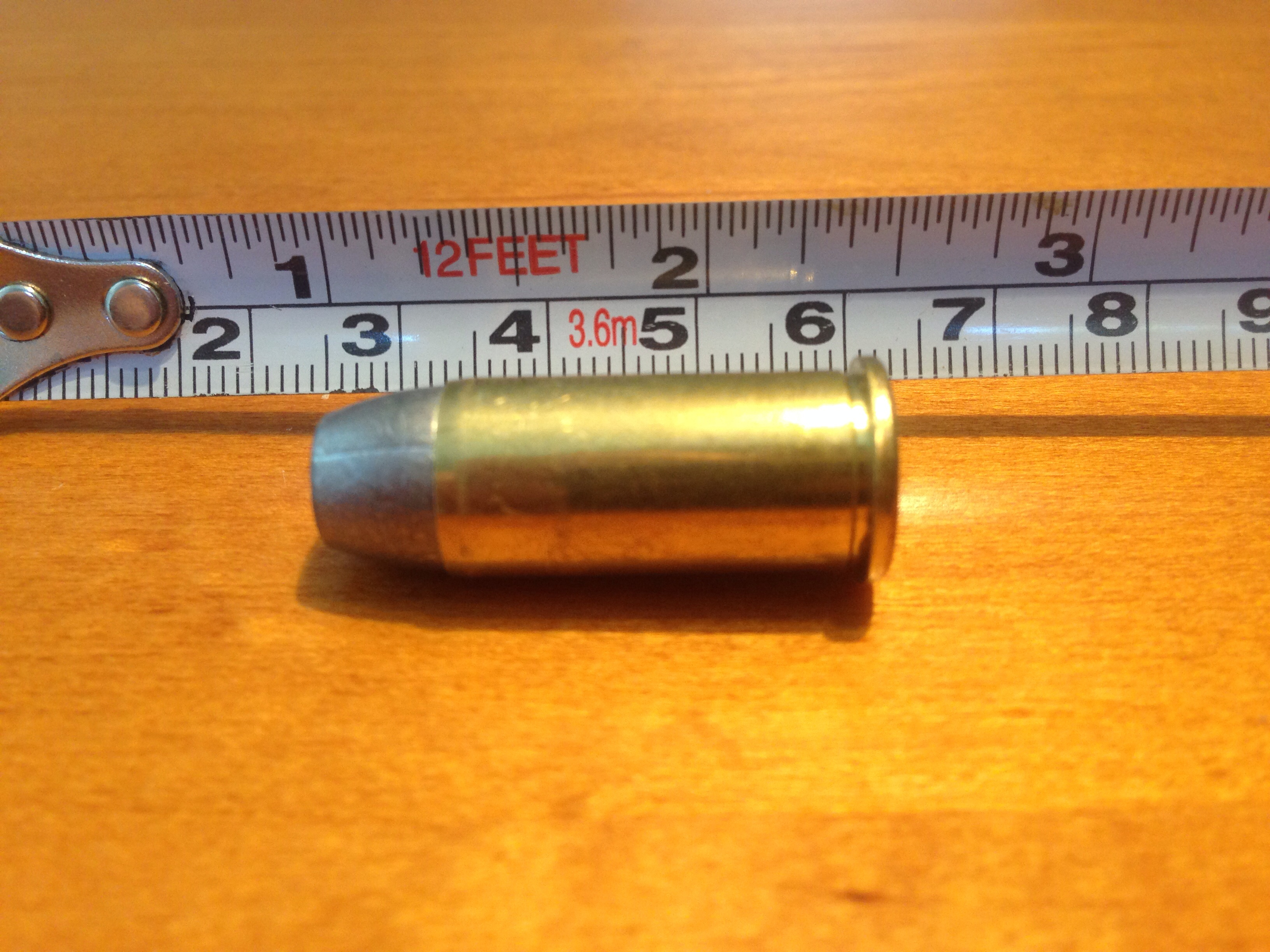 .44 Russian w/ scale